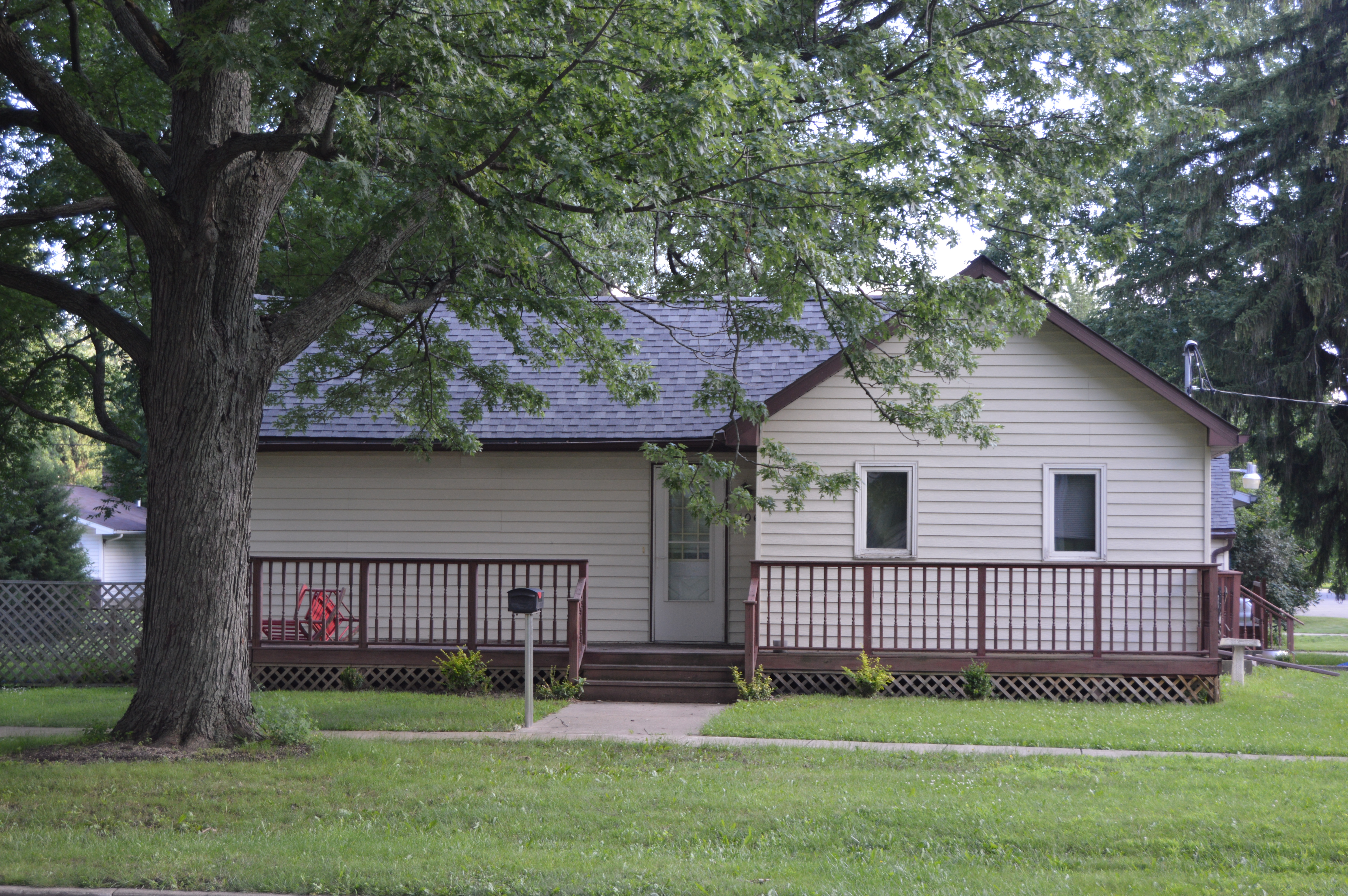 Front of the house located at 406 E. Franklin Street in Paxton, Illinois, United States. This occupies the site of the Paxton First Schoolhouse; built in 1856, it was listed on the National Register of Historic Places in 1980, and it has not yet been removed, despite its destruction.